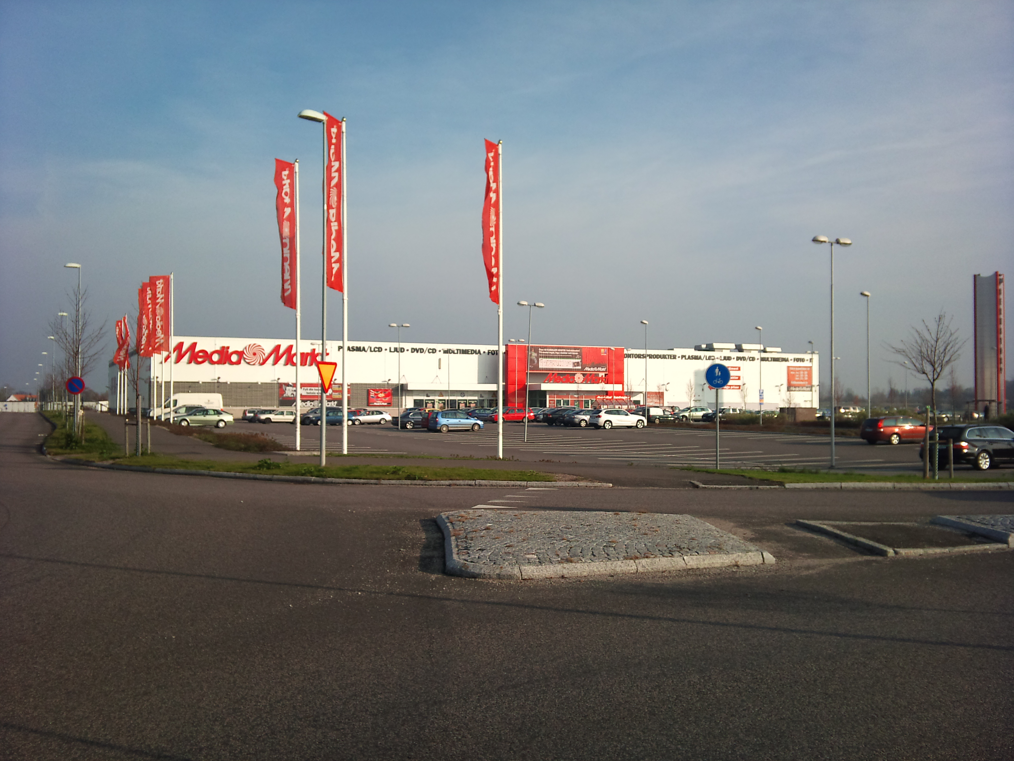 A Media Markt store at the shopping mall Stora Bernstorp in the city of Malmo.